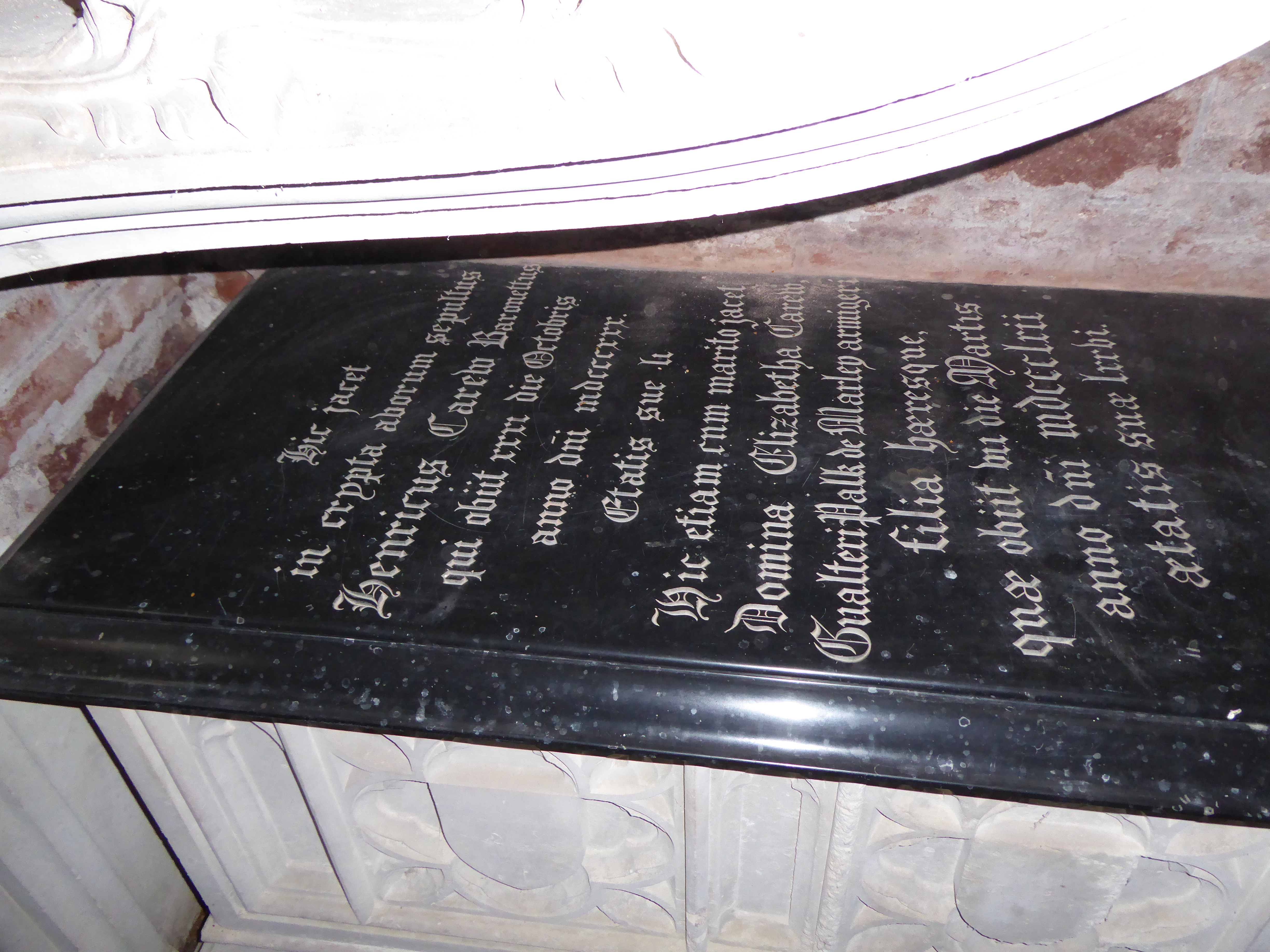 Monument to Sir Henry Carew, 7th Baronet (1779–1830) of Haccombe in Devon, east end of the north aisle, St Blaise's Church, Haccombe, consisting of a chest tomb within an Easter sepulchre-type niche, beneath a stained glass window. The top of the chest tomb is a slab of polished Purbeck marble engraved in Latin in Gothic text as follows, in imitation of mediaeval monuments: Hic jacet in crypta aborum sepultus Henricus Carew Baronettus qui obiit XXXI die Octobris anno d(omi)ni MDCCCXXX (a)etatis su(a)e LI. Hic etiam cum marito jacet Domina Elizabetha Carew Gualteri Palk de Marley armigeri filia haeresque quae obiit VII die Martis (sic) anno d(omi)ni MDCCCLXII aetatis suae LXXVI Which may be translated as: "Here lies buried in the crypt ..... Henry Carew, Baronet, who died on the 31st day of October in the year of our Lord 1830 (in the year) of his age 51. Here also with her husband lies Lady Elizabeth Carew, daughter and heiress of Walter Palk of Marley, Esquire, who died on the 7th day of March in the year of our Lord 1862 (in the year) of her age 76". Above is a three-light lancet window, the middle one displaying the arms of his ancestors who all held Haccombe successively, namely (from top to bottom) de Haccombe, Archdeckne, Courtenay and Carew